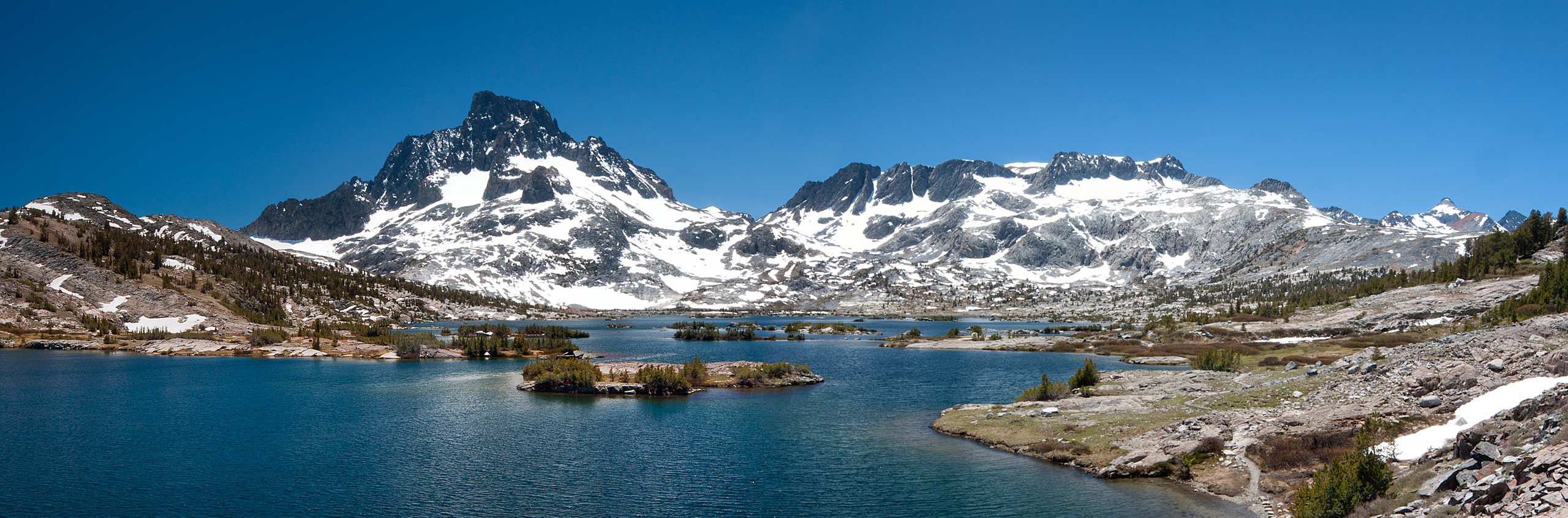 Ansel Adams Wilderness, California, June 2012.